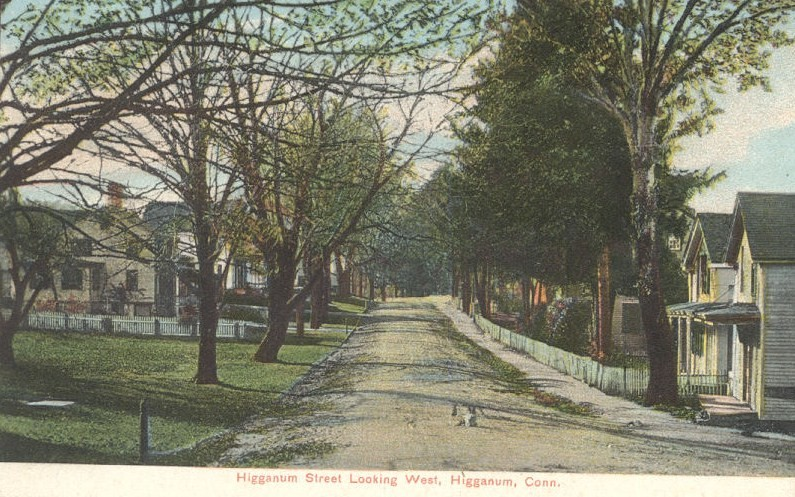 A street, looking west in Higganum, Connecticut, a part of Haddam, Connecticut. Store Web page states: "View Higganum St Higganum CT / 1909 Higganum CT cancel light wear / Pub by E D Gilbert Made in Germany"